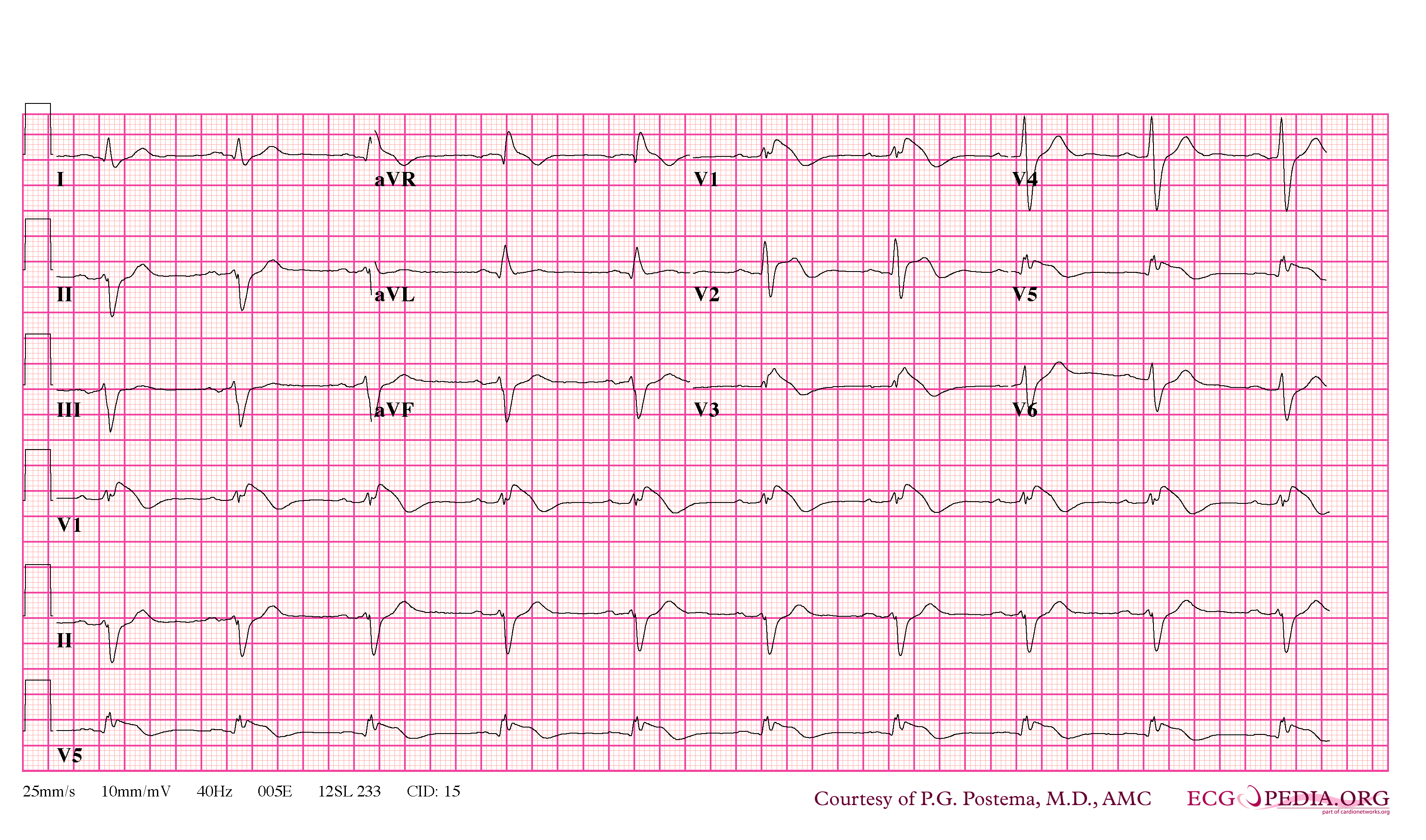 Note that V3 is placed one intercostal space above V1 (V1 IC3) and V2 one intercostal space above V2 (V2 IC3). A Type I morphology is seen in V1, V1 IC3 and V2 IC3. Furthermore there is a left axis, fractionation of QRS complexes and wide S waves in the inferior and lateral leads.